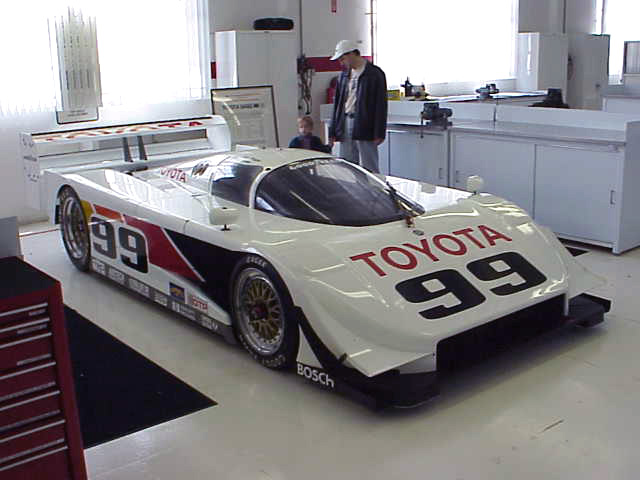 Toyota Eagle MK3 006 GTP Class car